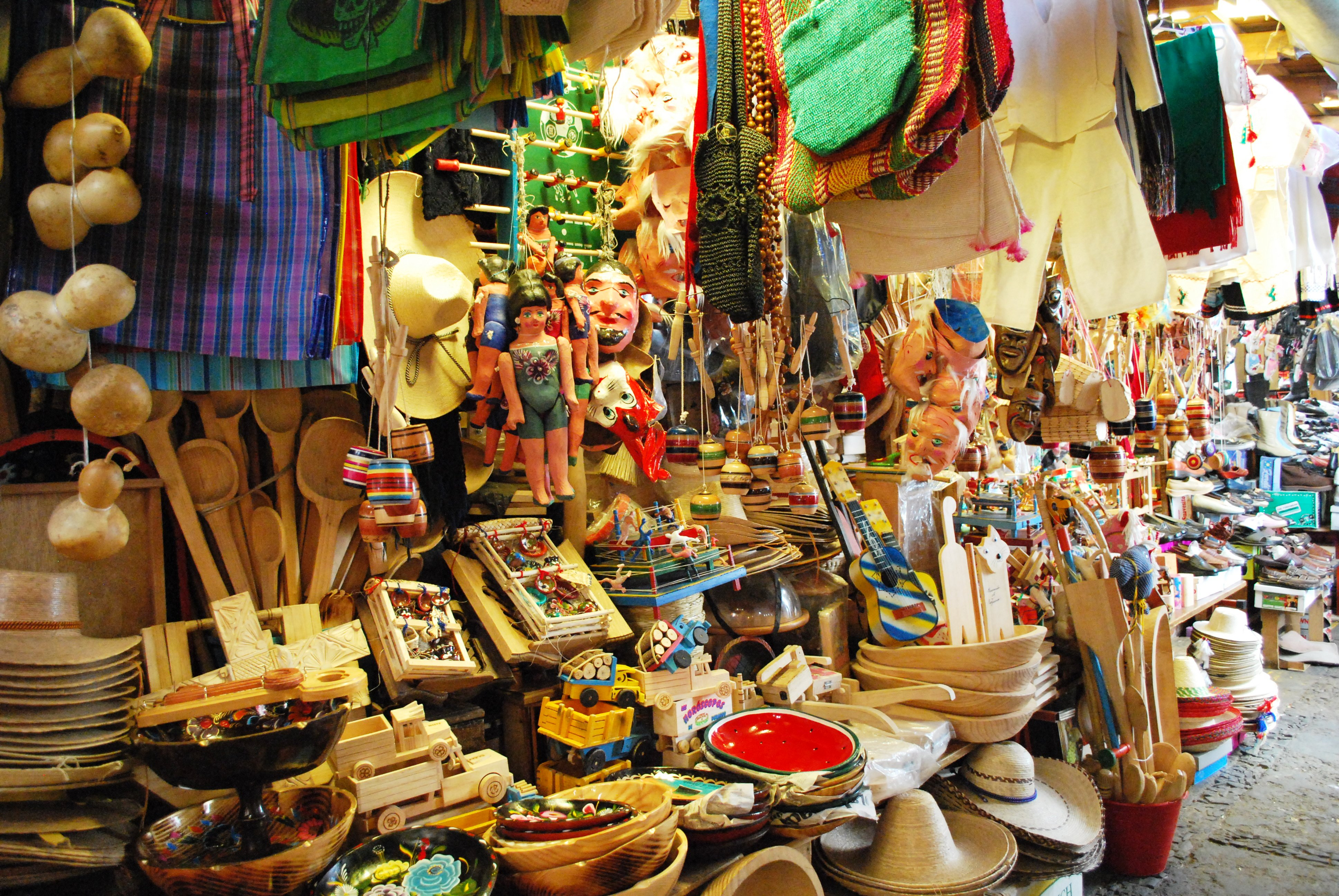 Wooden crafts for sale at the municipal market of Patzcuaro, Michoacan